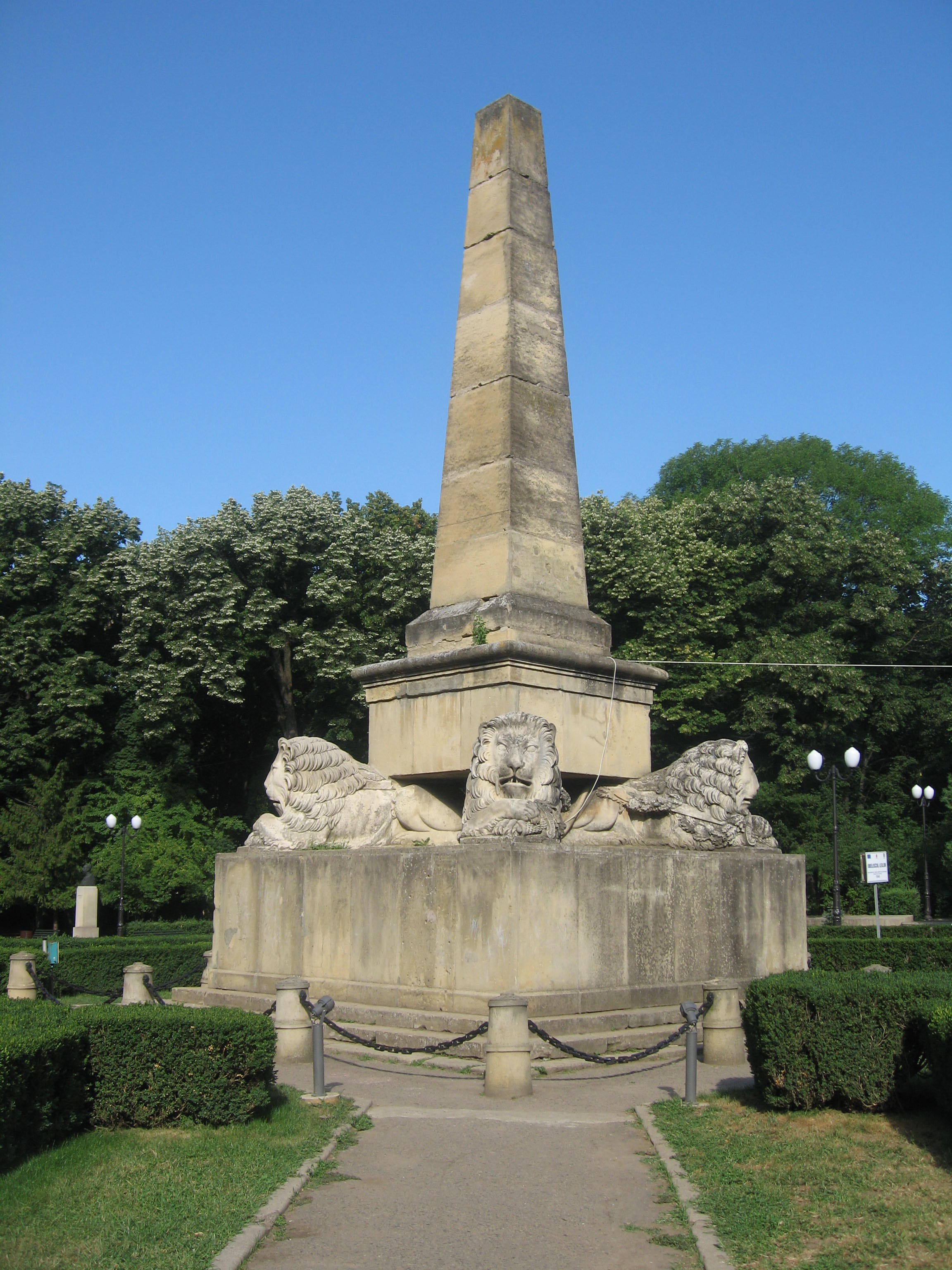 Obeliscul Leilor din Iaşi